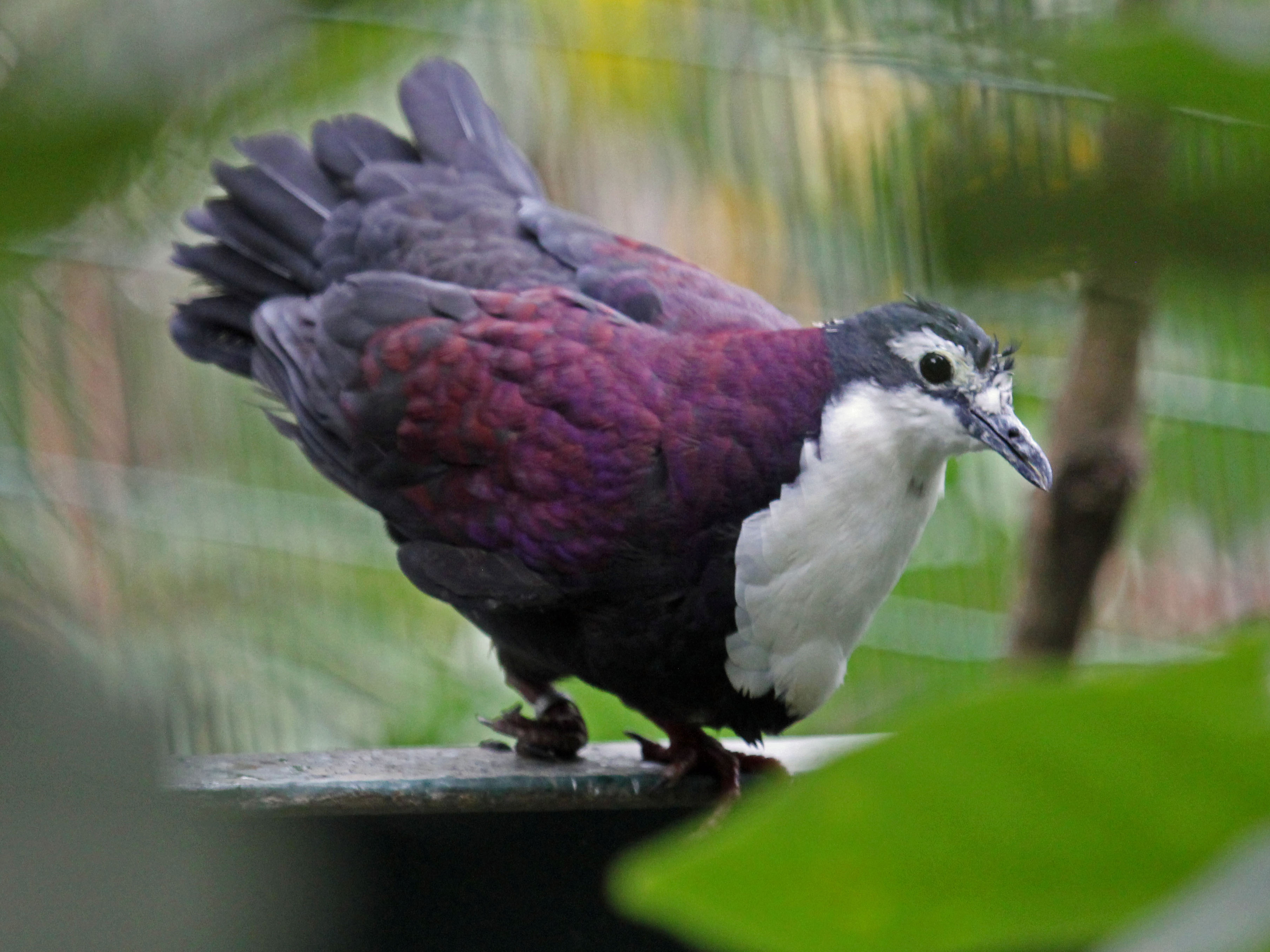 Purple Ground Dove, also White-breasted Ground Dove (Gallicolumba jobiensis) - San Diego Zoo